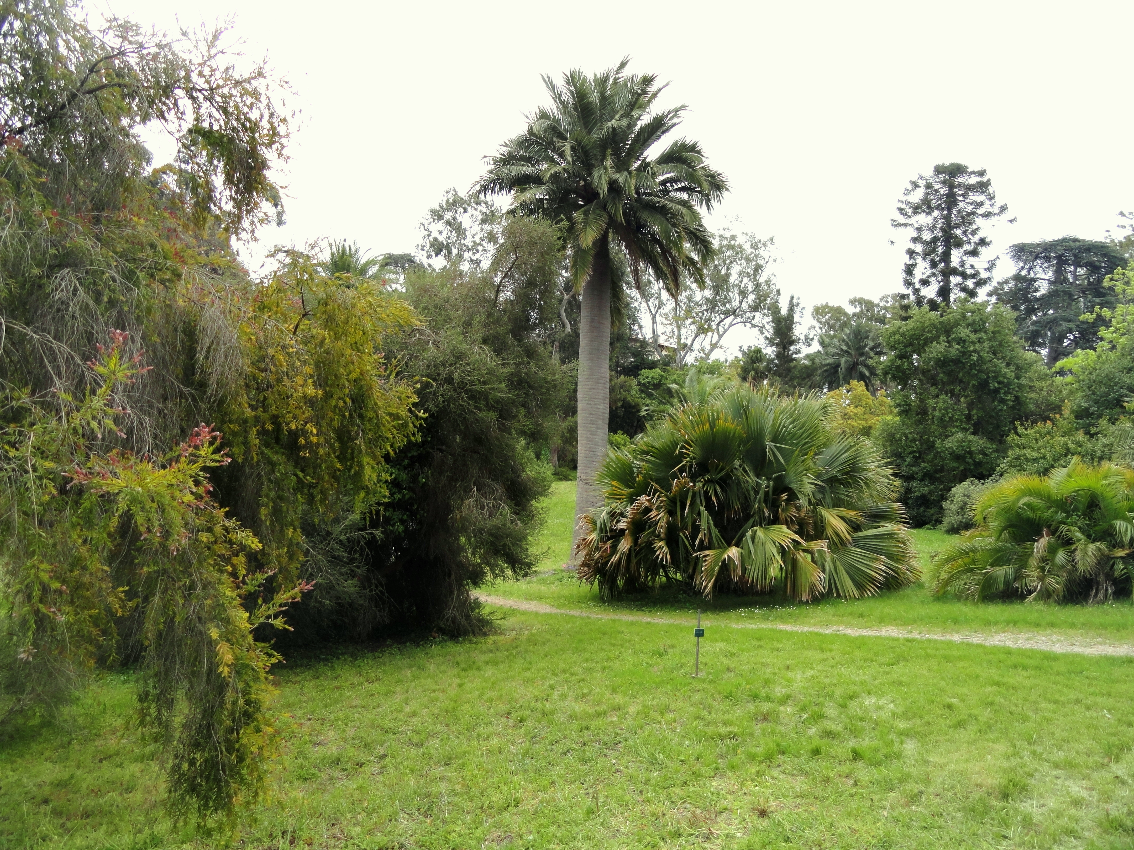 General view of the Jardin botanique de la Villa Thuret, Antibes Juan-les-Pins, Alpes-Maritimes,France.